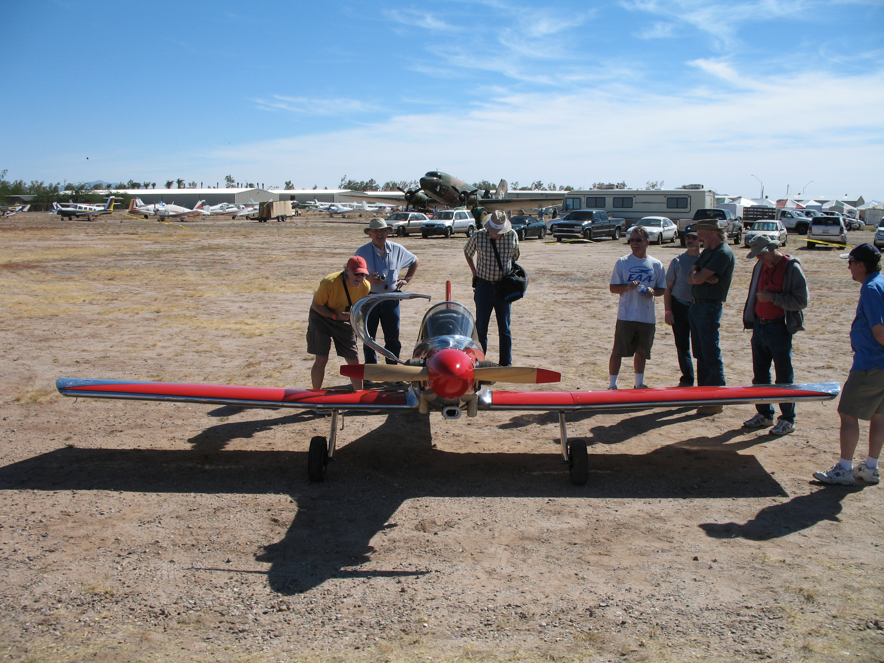 Hummelbird built by Skeet Wyman with McCulloch 0-100-1 engine